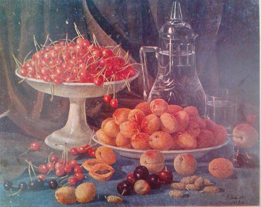 Gevorg Voskanyan's painting